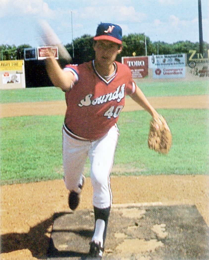 Pitcher Bob Tewksbury of the 1984 Nashville Sounds Minor League Baseball team of the Southern League